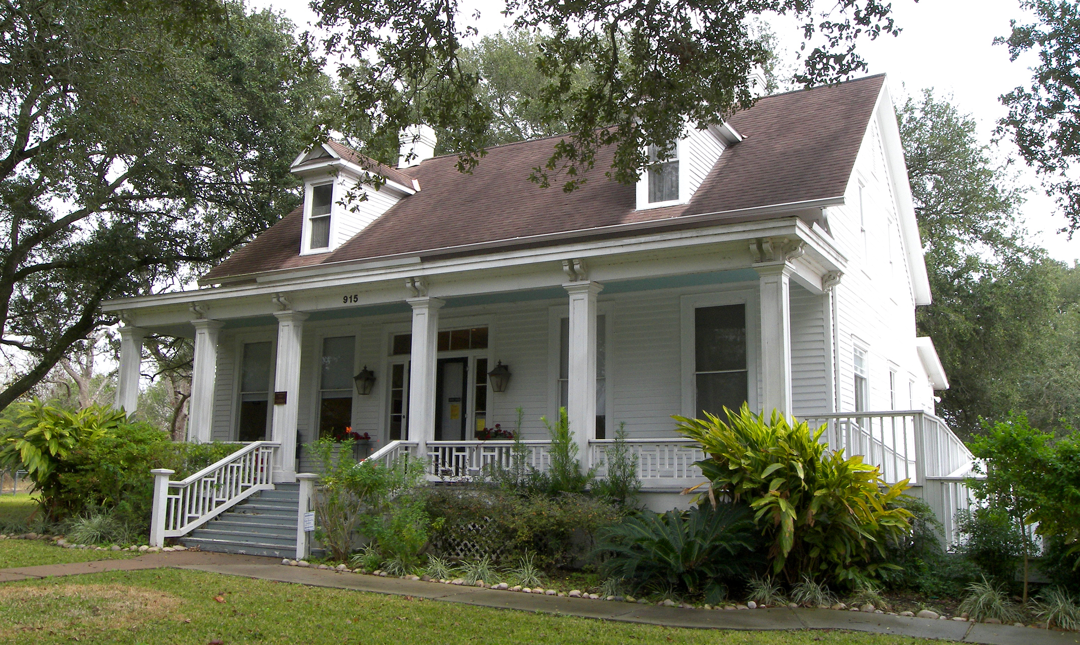 The Lamar-Calder House in Richmond, Texas, United States. The building was listed on the National Register of Historic Places on March 30, 2005.